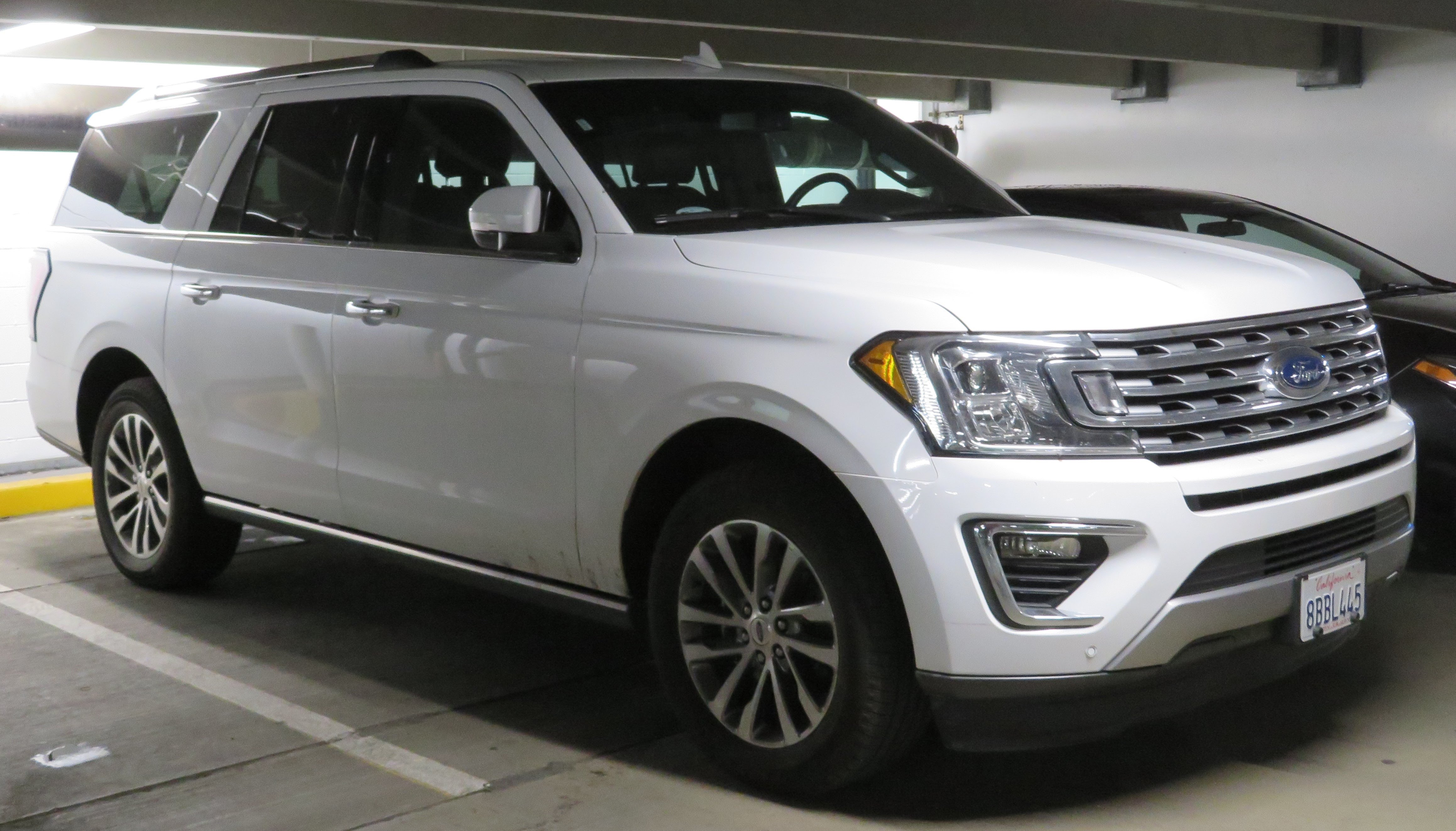 Spotted in Flushing, New York